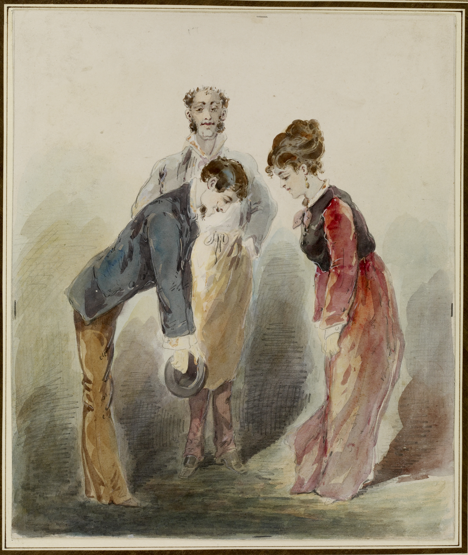 On the Boulevard Montmartre in Paris in 1882, Alfred Grévin established the Musée Grévin, a wax works and toy museum, which remains popular among French children today. As this whimsical rendering of 19th-century courtship reveals, he was also a gifted caricaturist who is remembered for light-hearted illustrations of Parisian society.